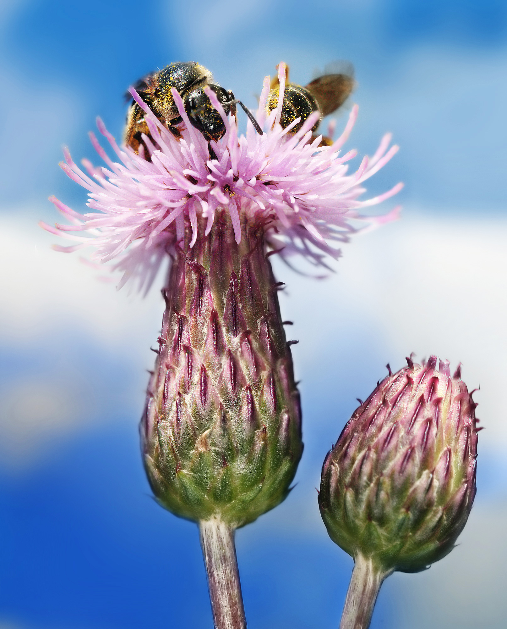 Desciption: 2 Bees on a Creeping Thistle Cirsium arvense